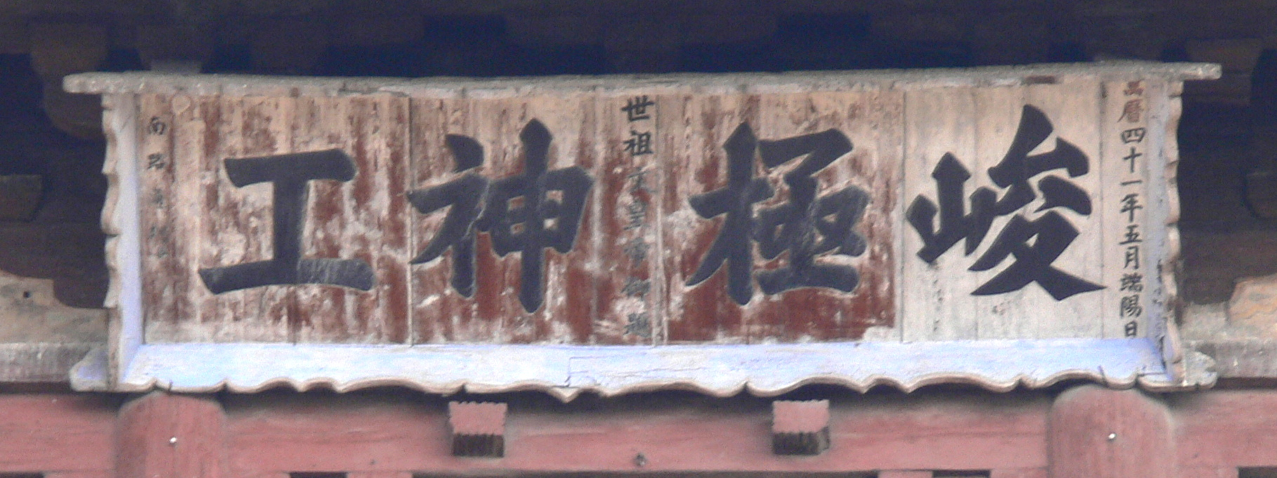 Emperor Yongle calligraphy plague "Magnificent and Magical work" at Fogong temple